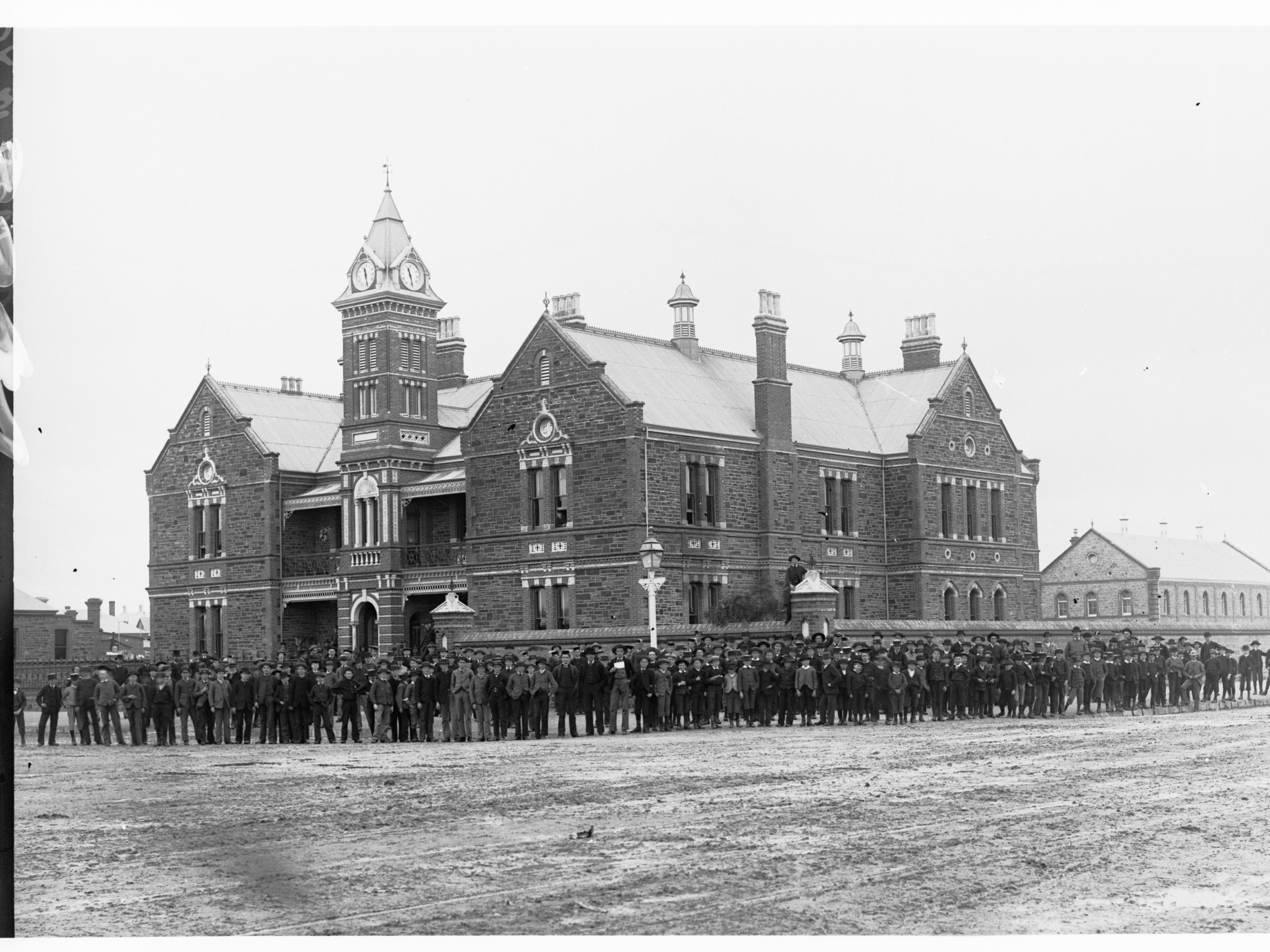 See "Heritage of the City of Adelaide", p.212. (G Brooks)